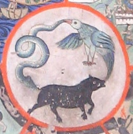 Three poisons